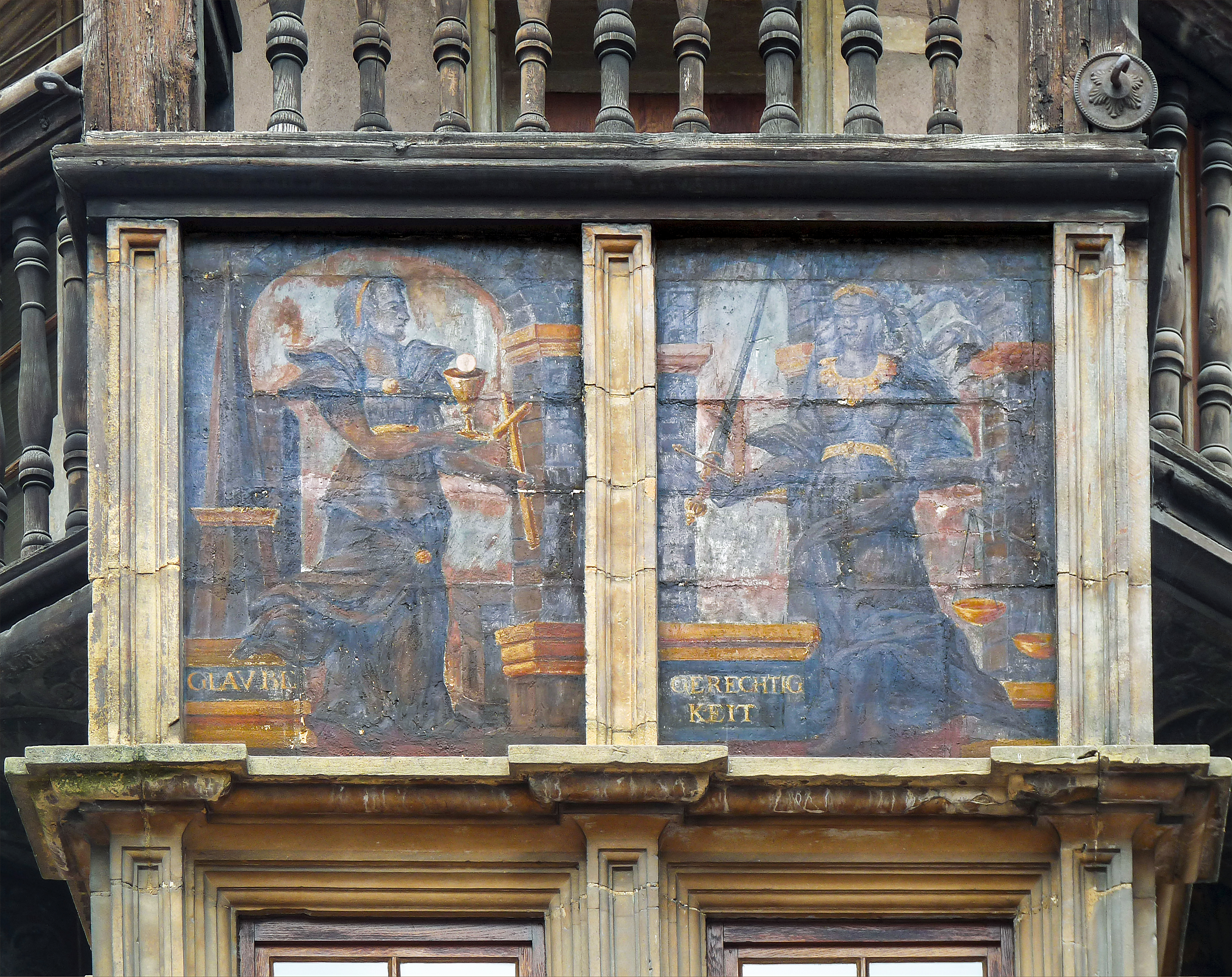 Colmar, Maison Pfister, 11 rue des Marchands. Detail of the wooden oriel.